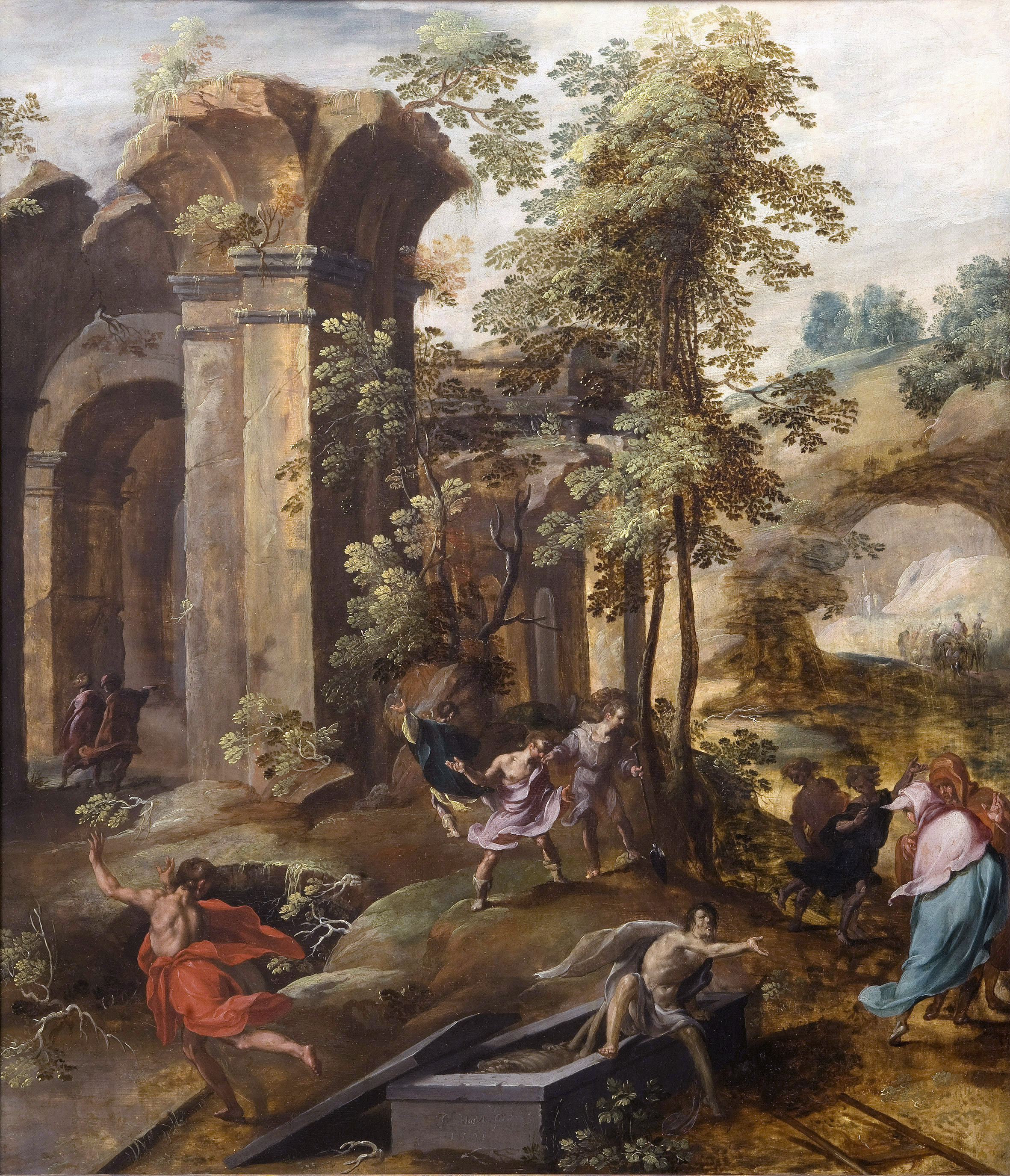 The dead man, who was thrown in Elisha's tomb, comes back to life (2 Kings 13:21) oil on panel 69.1 x 60.1 cm signed: J Nagel fc... 1596